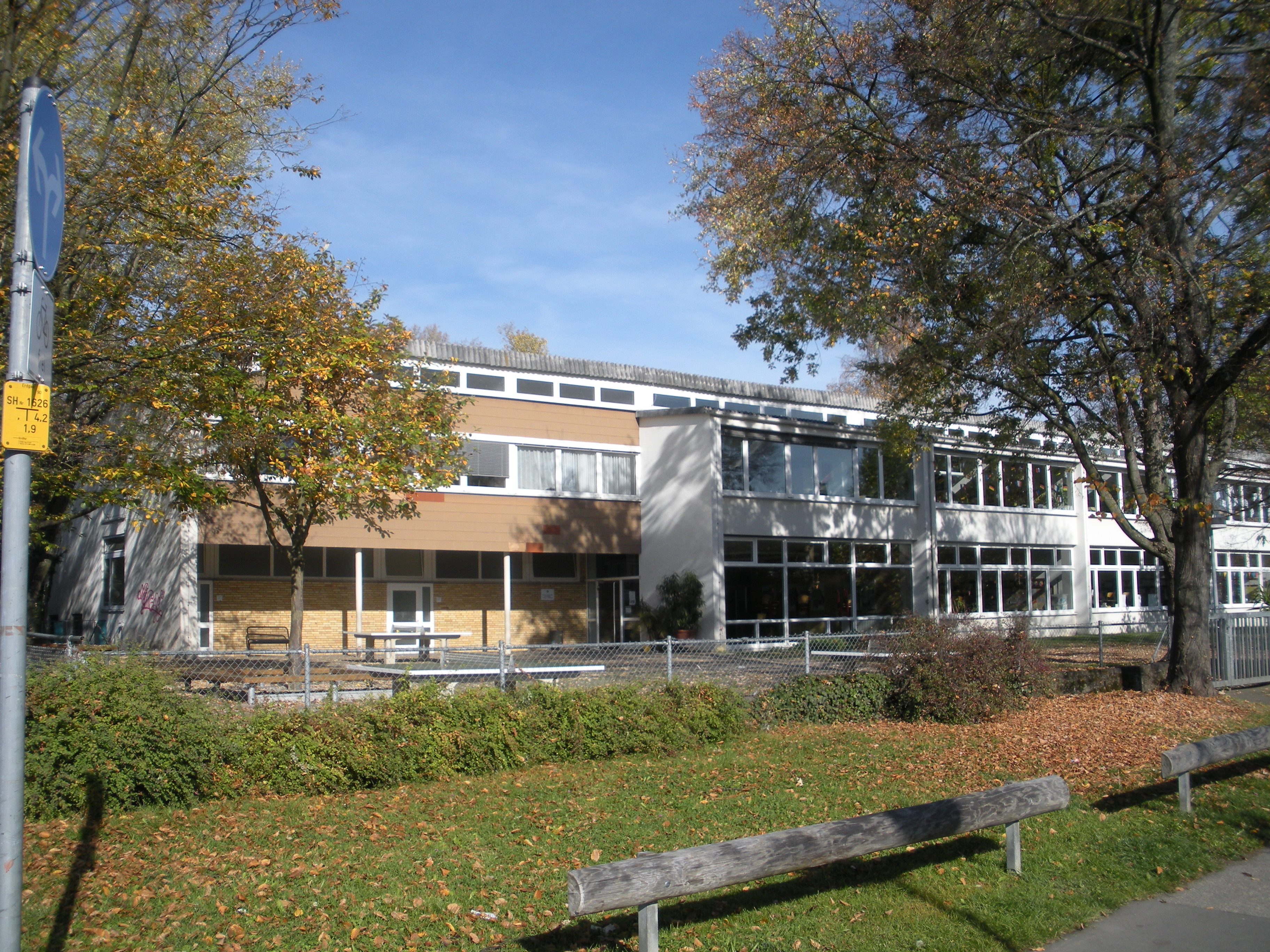 Primary School in Stuttgart-Sillenbuch